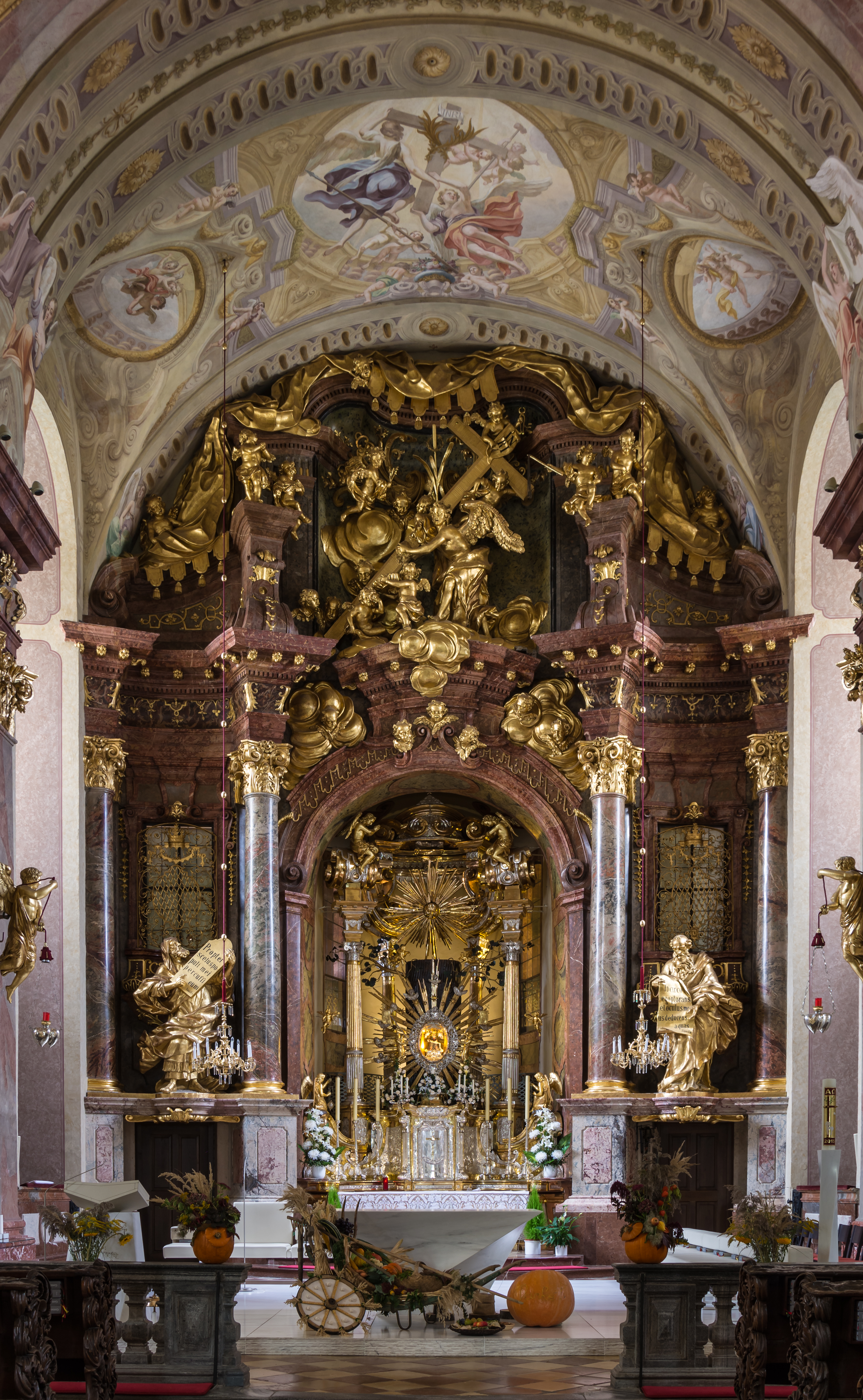 High altar of Maria Taferl Basilica, Lower Austria